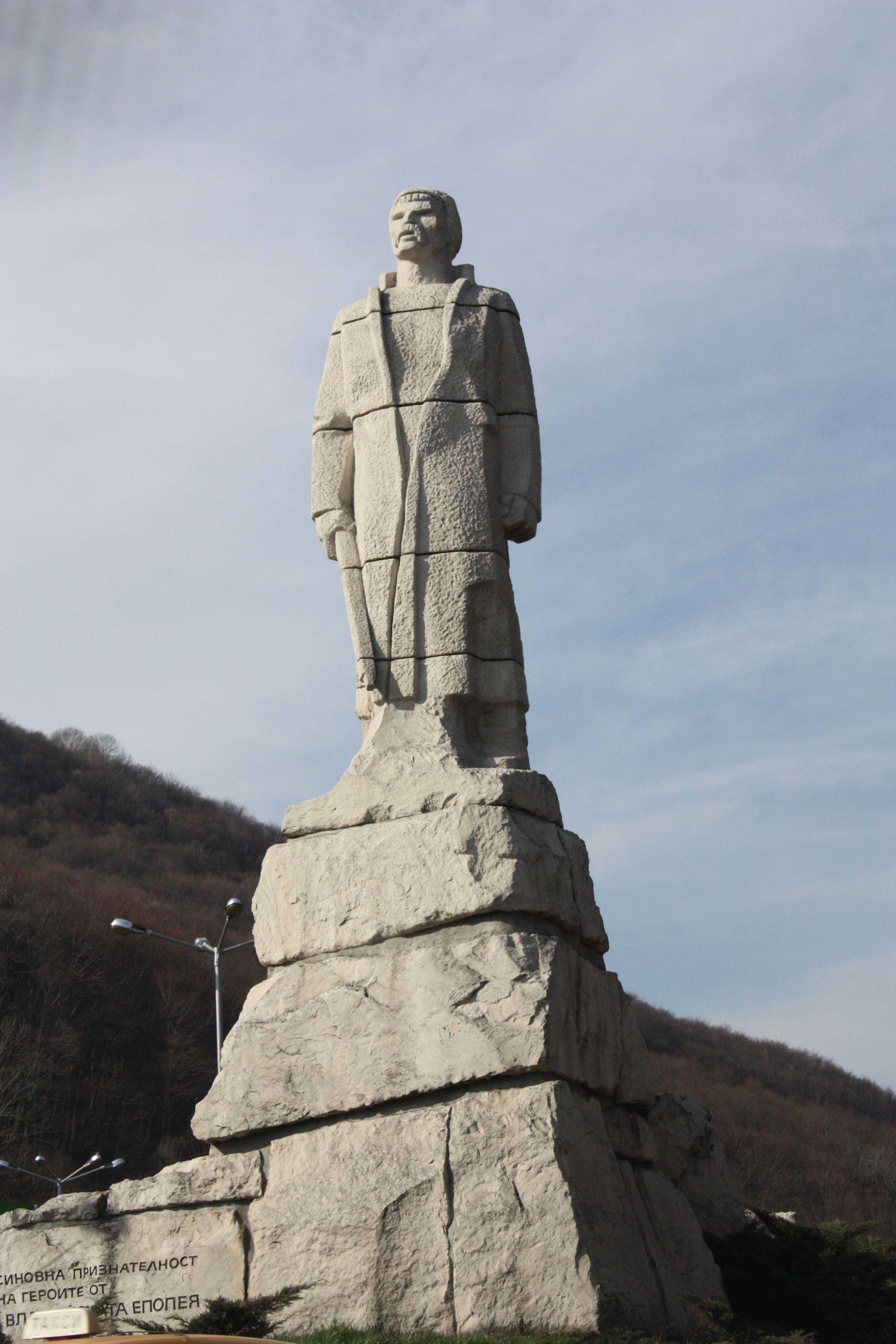 Boulevard Zar Boris III, Sofia, Bulgarien, On the road from Sofia Center to Rilski manastir